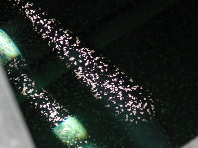 Photo showing calcite rafts on surface of water in Carpinteria Reservoir